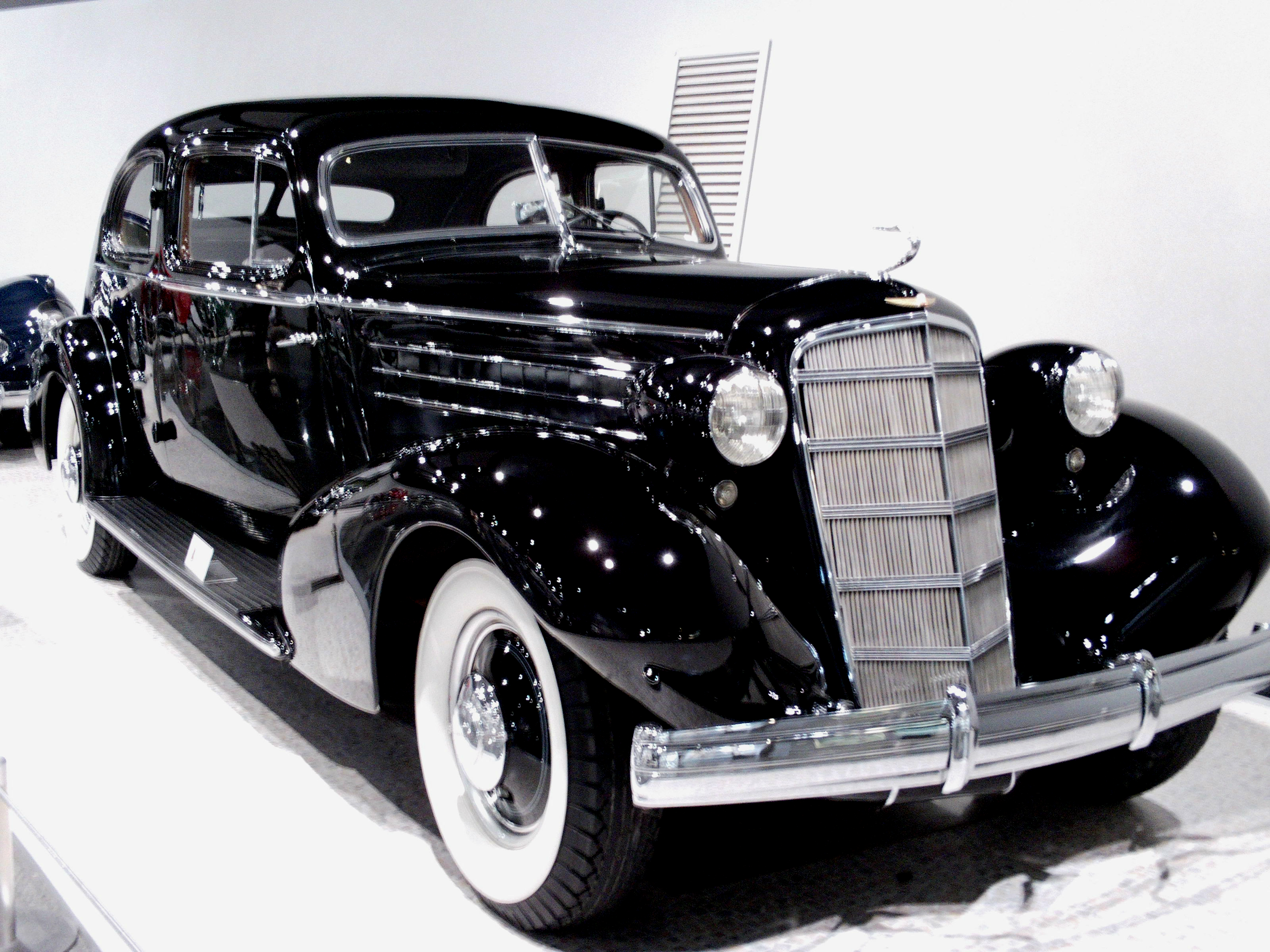 1935 Cadillac V12 Aero Coupe Cadillac 370D Series 30 Fleetwood 246(?) in. Wheelbase Vee Windshield Style 5799 Aero. Coupe 5 passenger $4295 2468 kg